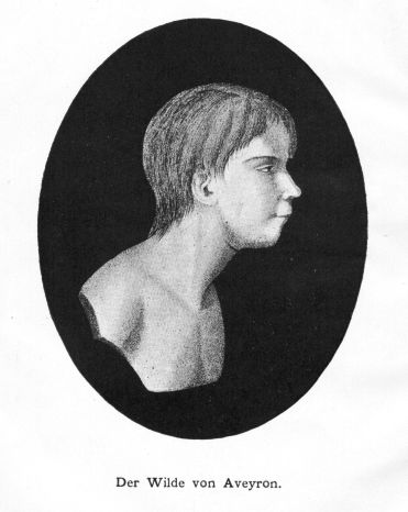 Victor of Aveyron